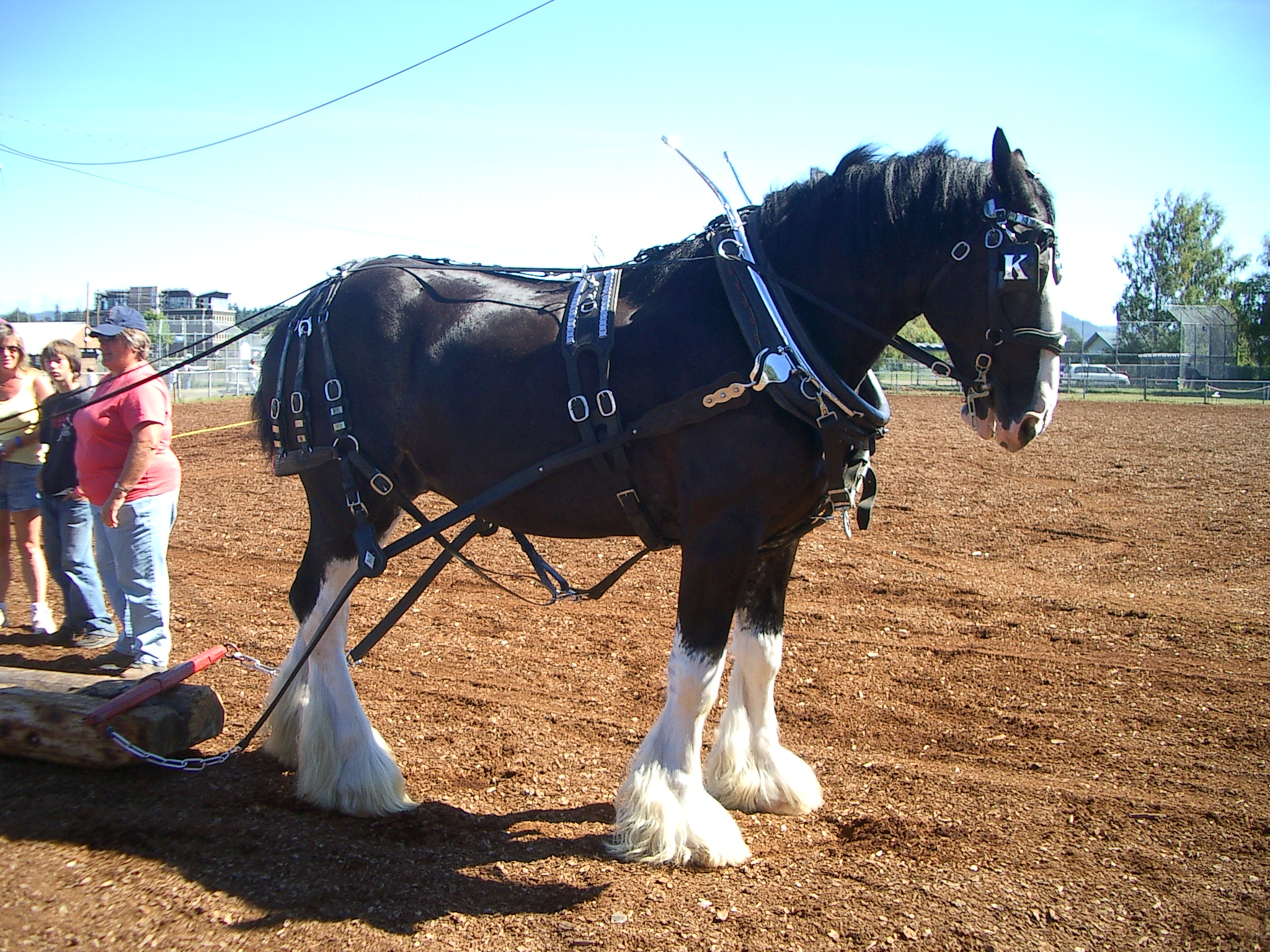 Clydesdale's are definitely the showiest of the work horses.